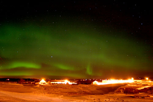 Northern Lights (aurora borealis) over Canadian University College in Lacombe, Alberta, Winter, 2005.